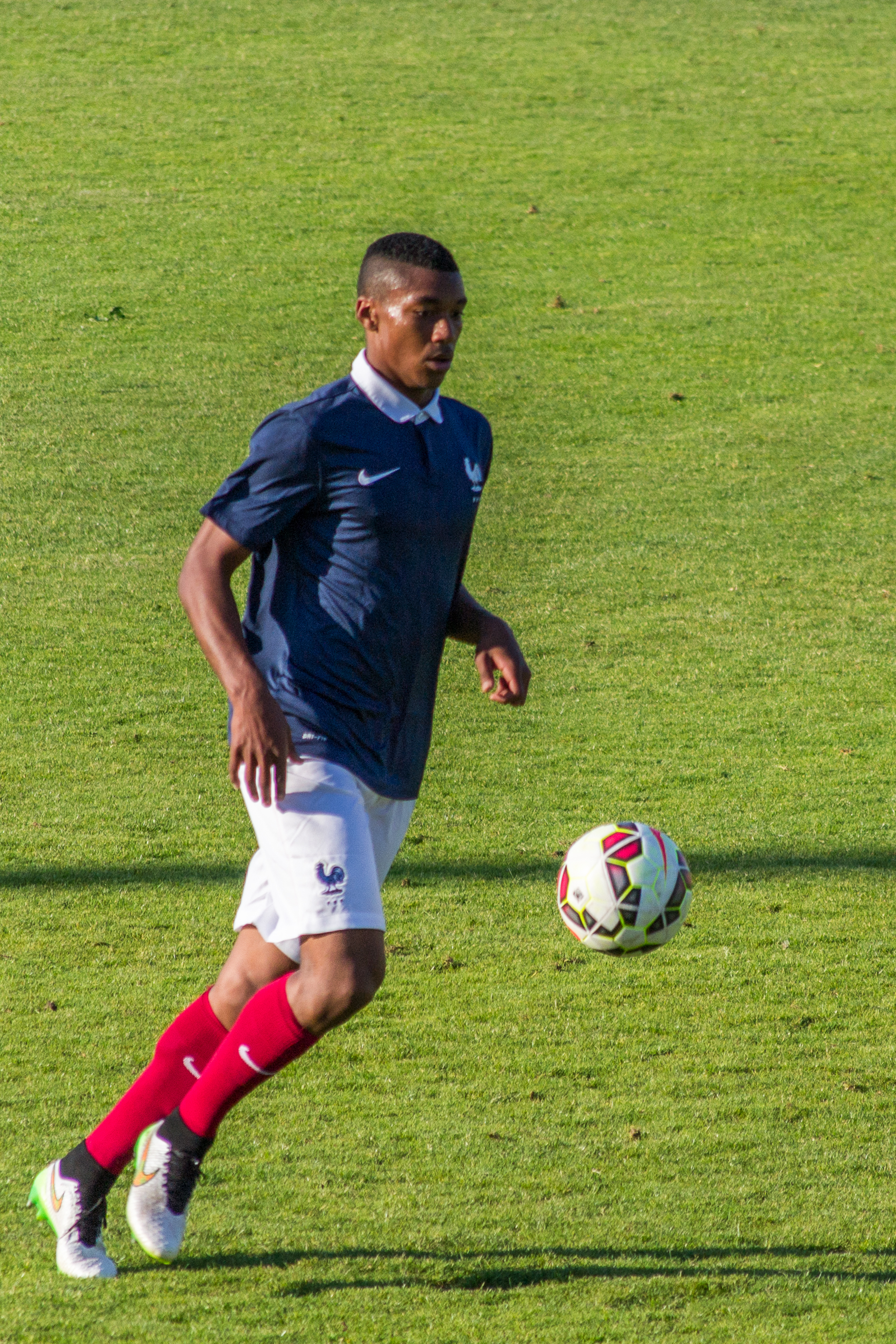 Raphaël Diarra playing for France U-23 against Costa Rica in 2015 Toulon Tournament